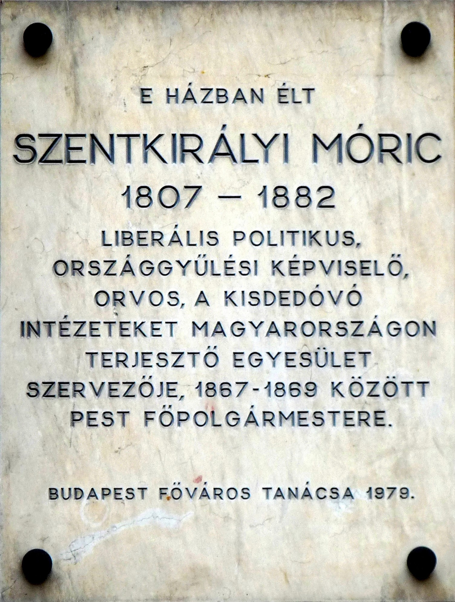 Móric Szentkirályi commemorative plaque in Budapest District VIII, Szentkirályi Street No 10.